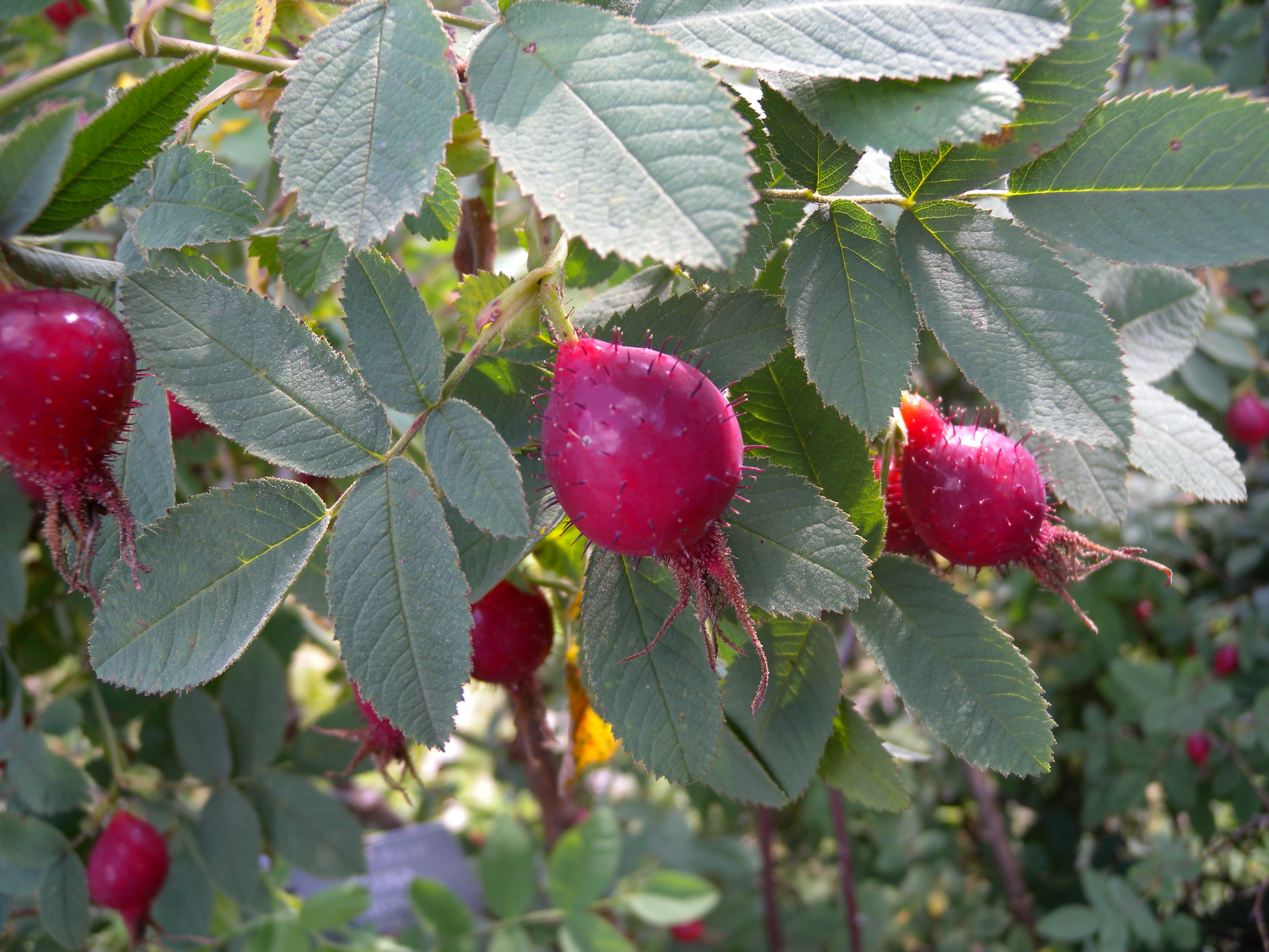 Fruits of Rosa villosa (Rosaceae), Botanical Garden Bern, Switzerland